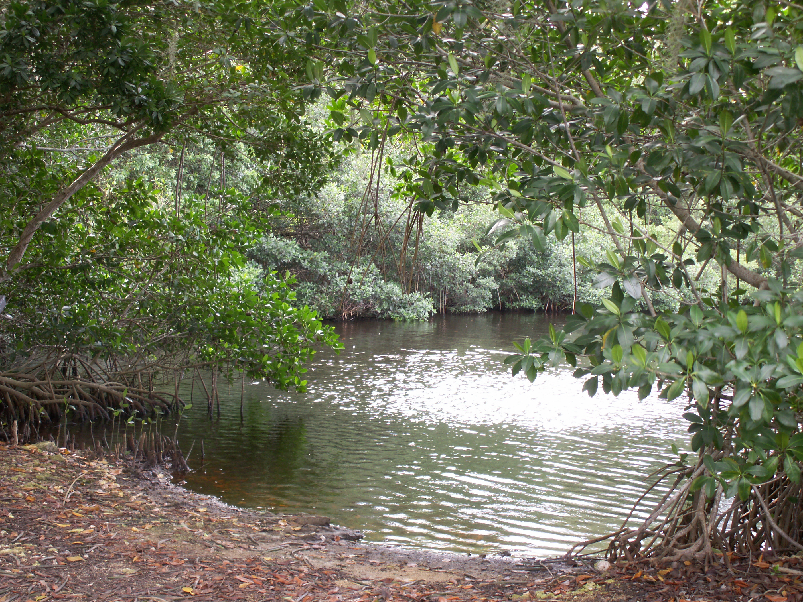 Mangrove trees bordering a tidal estuary in Everglades National Park